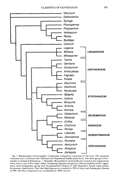 Relationships of Gentianales. Combinable component consensus of 144 trees. The unrooted consensus tree is oriented with Viburnum and Desfontainia basally polytomous. The sister group of Gentianales is Cestrum of Solanaceae — Solanales. Monophyletic Gentianales are rooted at the Loganiaceae sensu stricto, one of five major clades containing loganiaceous genera. Genera excluded from Loganiaceae (and Gentianales) group with Scrophulariales/Oleales or with Dipsacales. Family names follow the present classification. Note that Strychnaceae are resolved in 75% of trees, and Antonia plus Norrisia in 50%. All other components are combinable in 100% of trees.